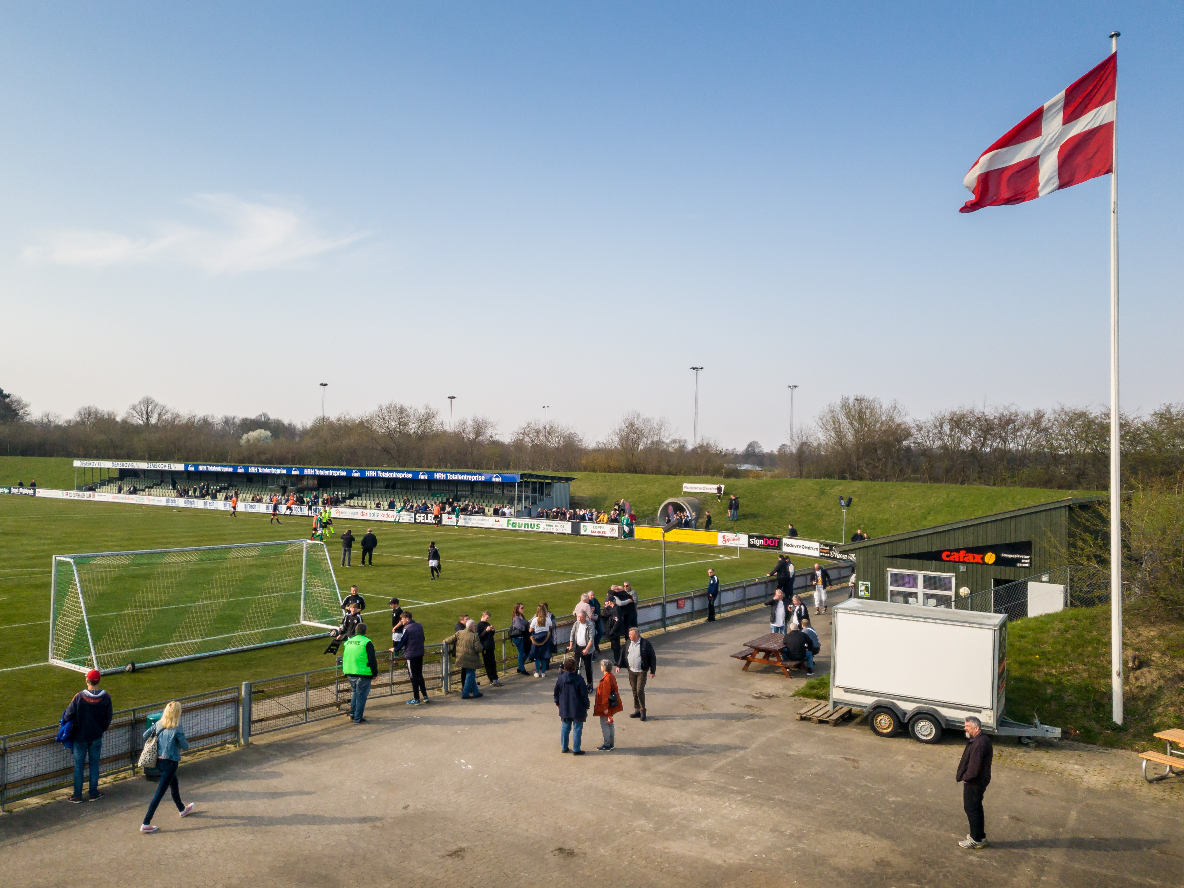 Spectators standing around near the entrance of Espelundens Idrætsanlæg after the football match between BK Avarta and Hillerød Fodbold in the Danish 2nd division (6 April 2019)